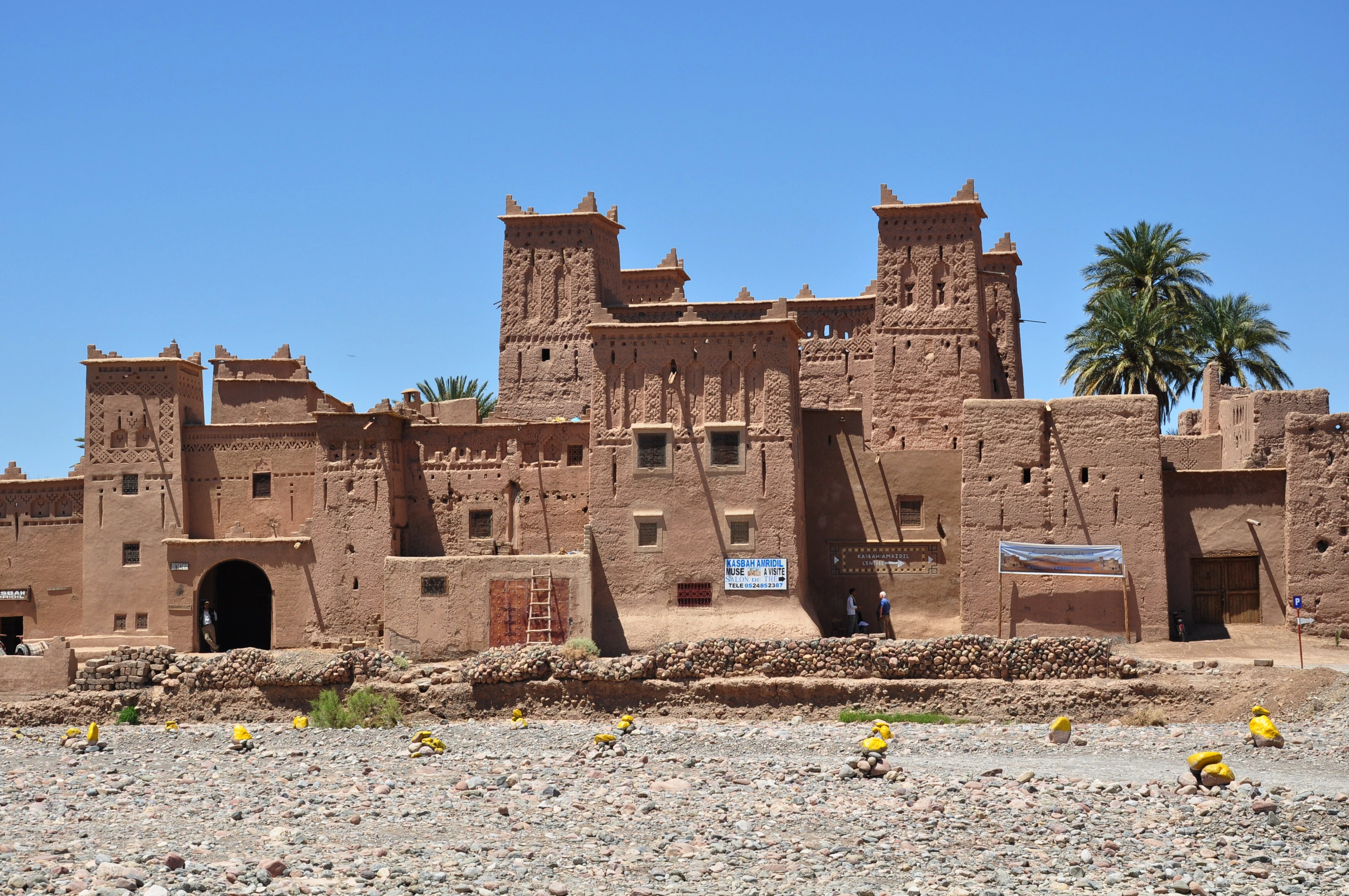 Kasbah Amerhidil lies 2 km from Skoura (southern Morocco, Souss-Massa-Draa Region, Ouarzazate Province).